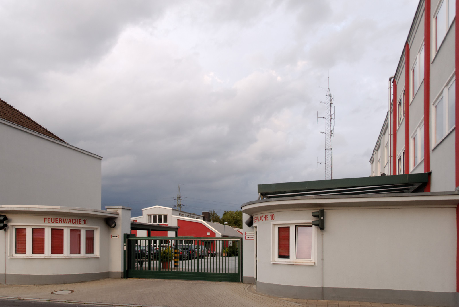 Fire station, Posener Straße 183 in Düsseldorf-Lierenfeld, Germany